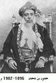 sultan Hamoud bin mhamed of zanzibar, he ruled between 1896 - 1902